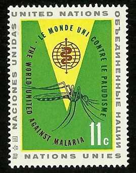 United Nations postage stamp